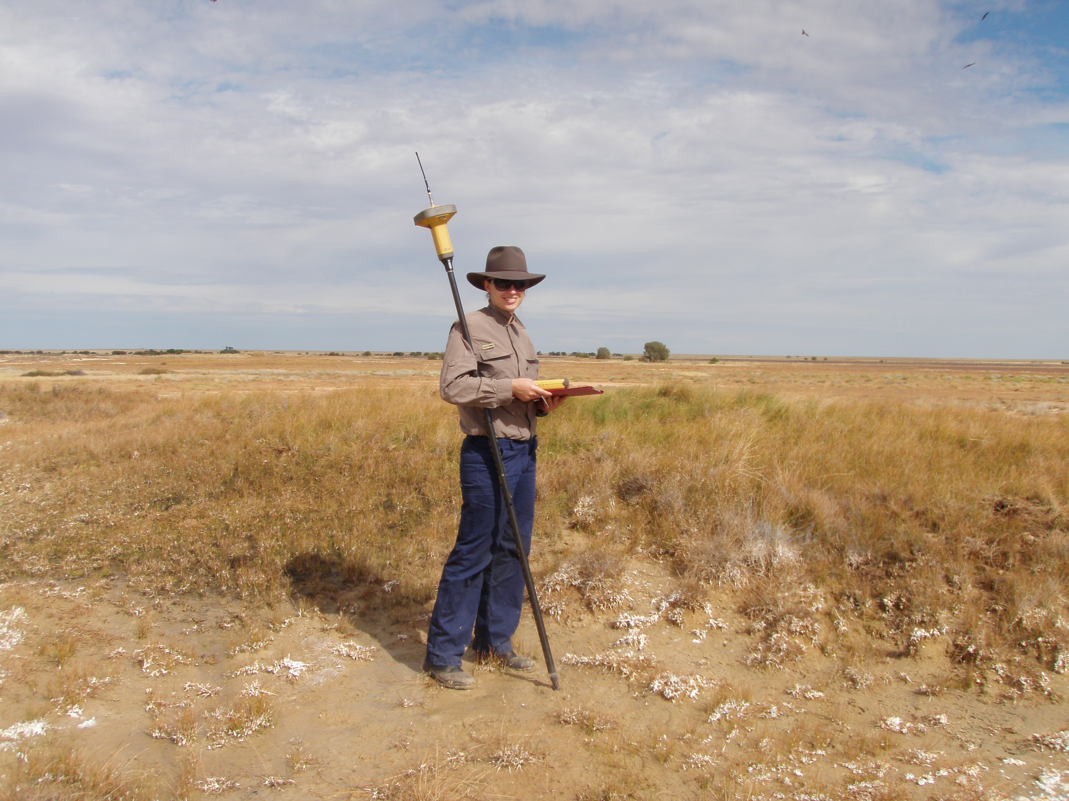 Springs extent mapping using differential GPS Elizabeth Spings Western Qld - Great Artesian Basin Springs Monitoring Program